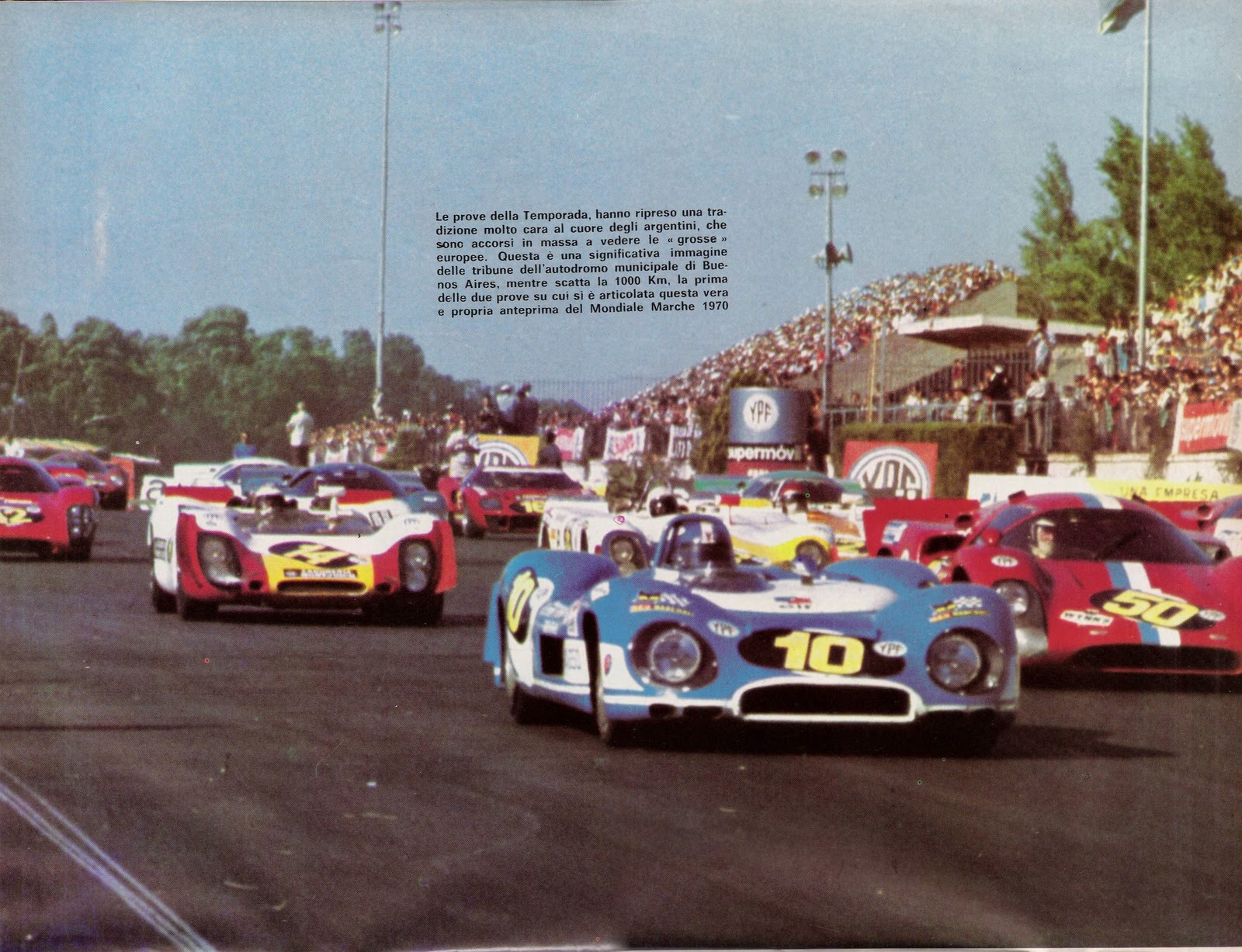 temoporada 1970